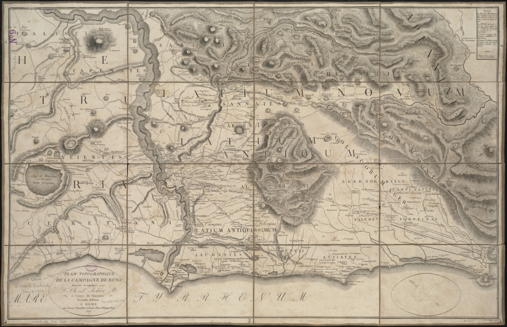 Zoom into this map at . Author: Sickler, Friedrich Publisher: Monaldini Libraire Date: 1816 Location: Campagna di Roma (Italy) Dimension: 55x86cm Scale: [ca. 1:130,000] Call Number: G6713.R6 1816 .S53x